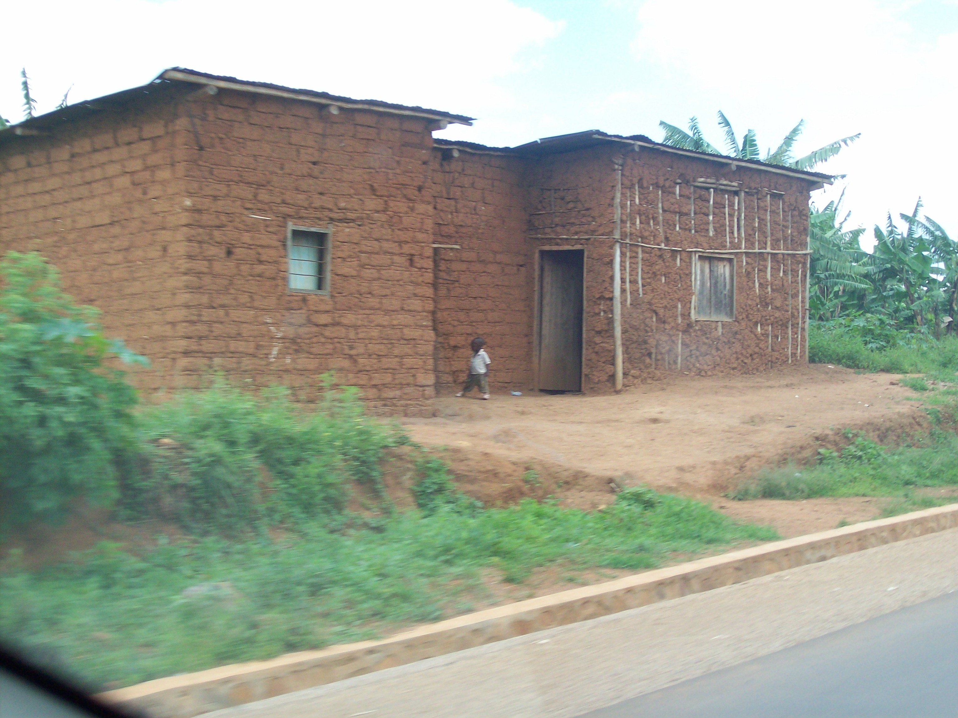 House in the Bugasera district, East Province, Rwanda